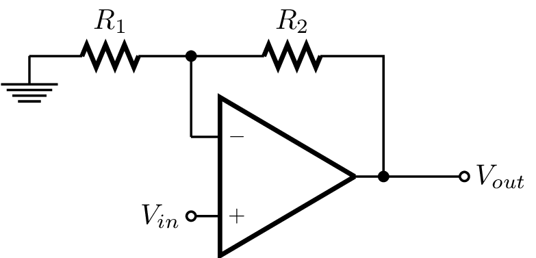 Non-inverting amplifier